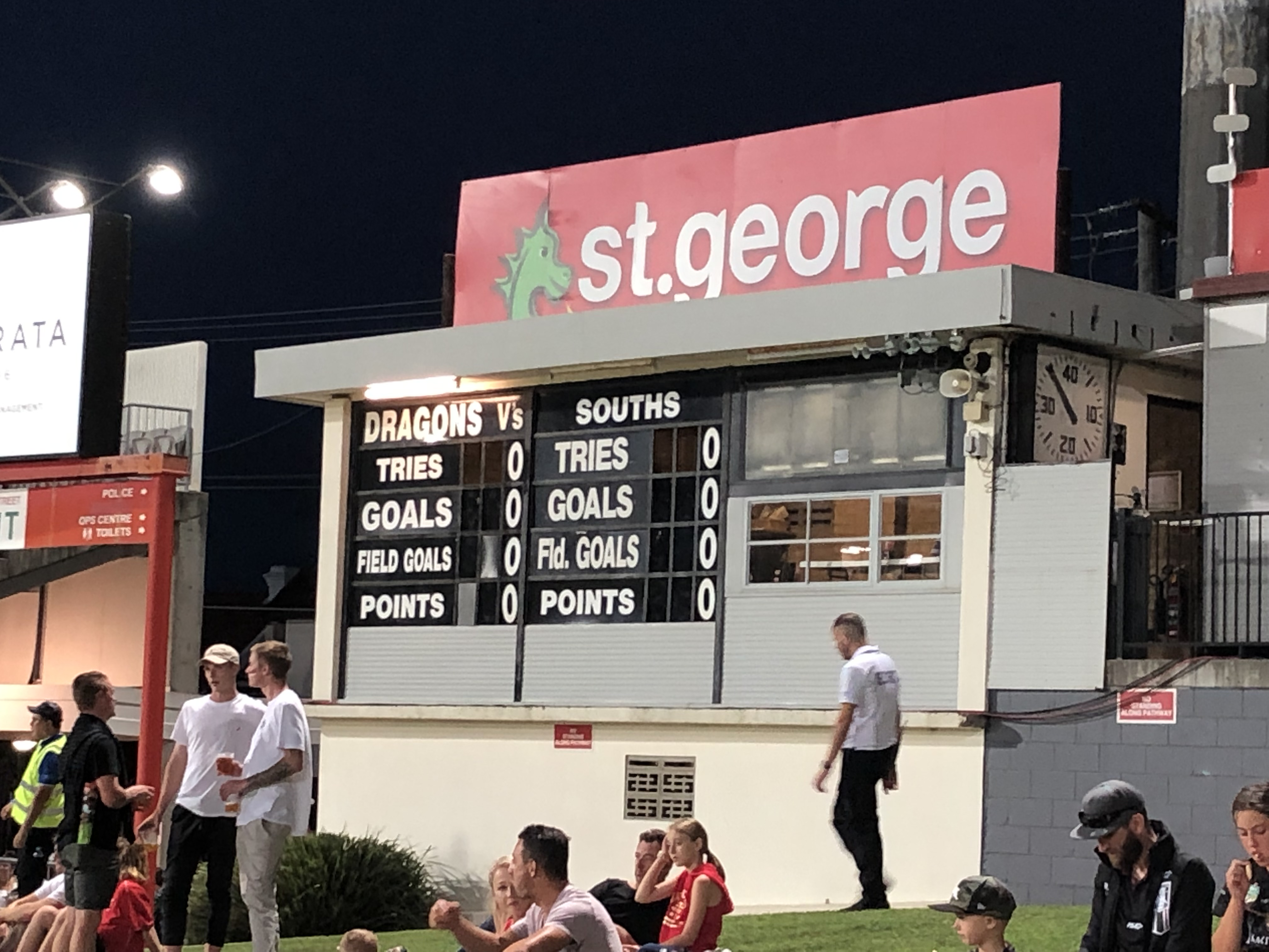 Shot of the scoreboard at Jubilee Oval.